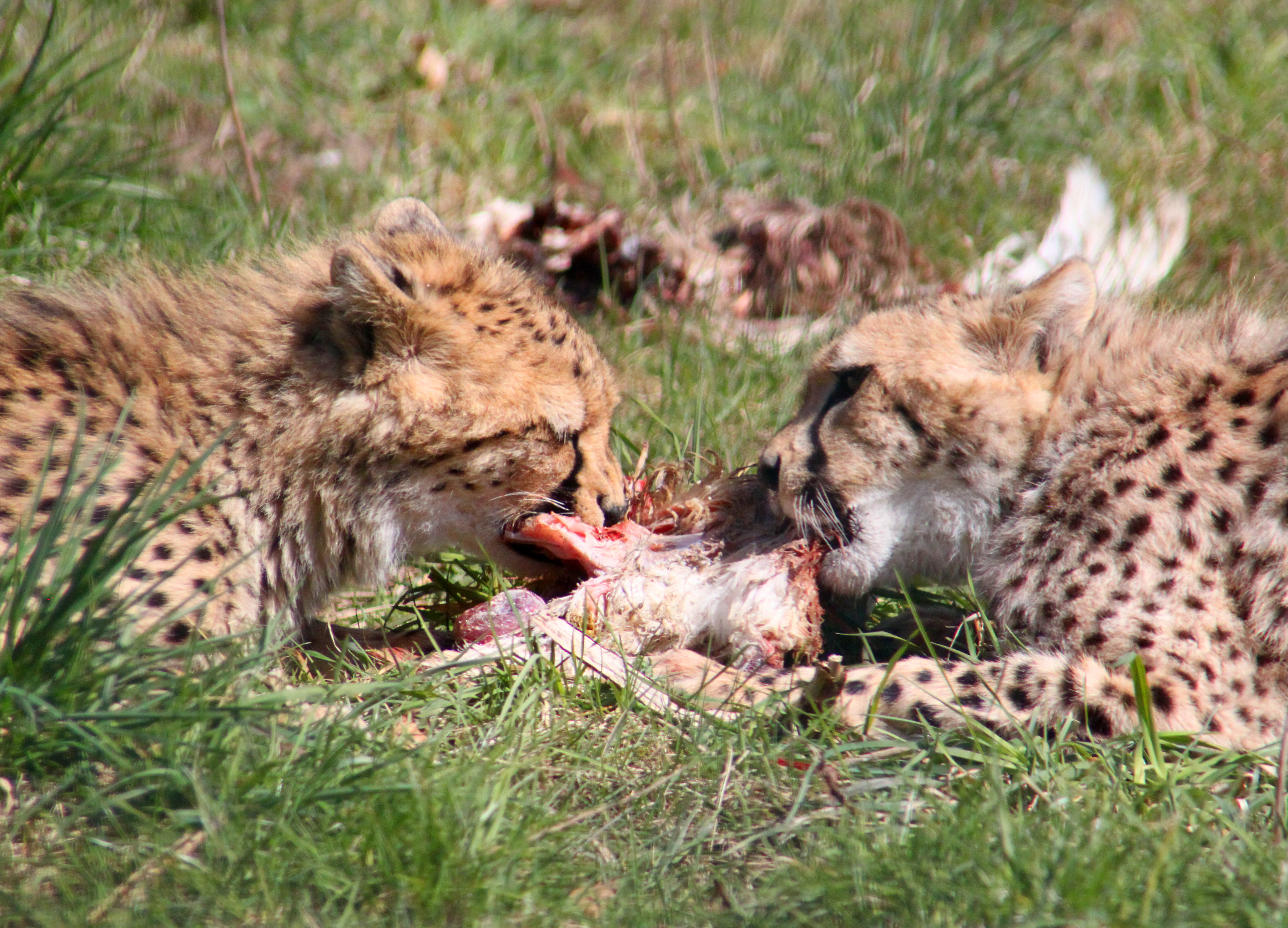 Two young cheetahs feeding. Captured at Ree Park - Ebeltoft Safari, Denmark.